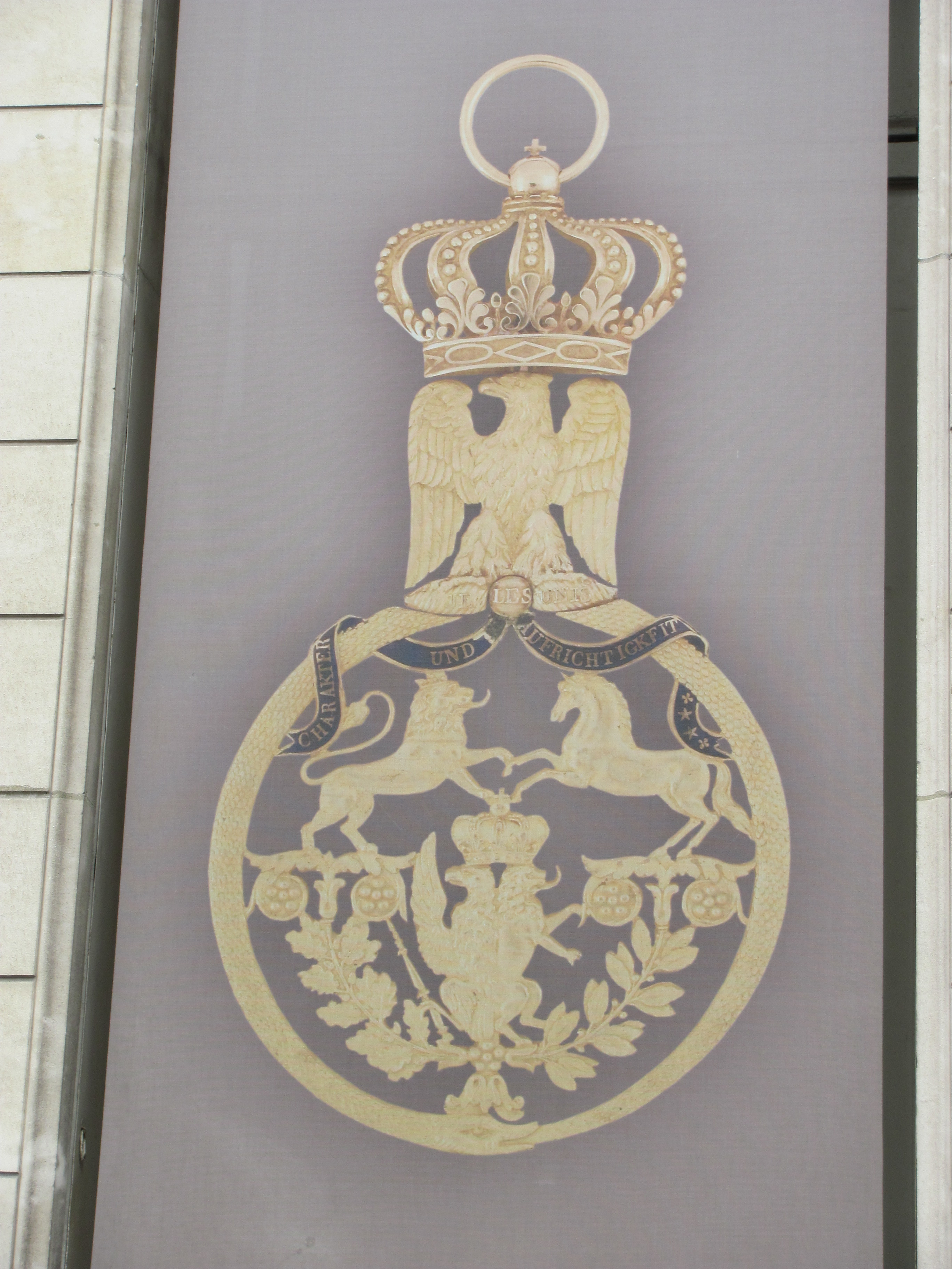 Order of the Crown of the Kingdom of Westphalia